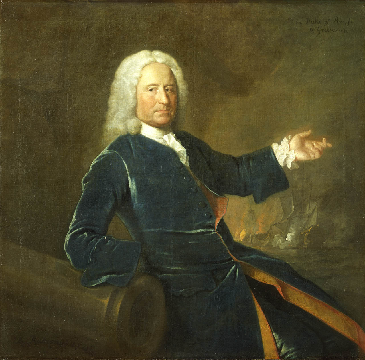 Admiral The Honourable Charles Stewart A three-quarter-length portrait to right, wearing a blue velvet coat lined with red silk, blue breeches and a red waistcoat laced with gold. His dress wig is white and he reclines against a gun barrel gesturing to the right with his left hand. The artist has indicated the subject's loss of his right hand by the positioning of the stump of his forearm in a pocket. In the right background a ship is shown in action. The portrait shows the sitter in old age. The portrait is signed 'A Ramsay' bottom left, although the inscription top right describing the sitter as 'The Duke of Argyle & Greenwich' is erroneous.